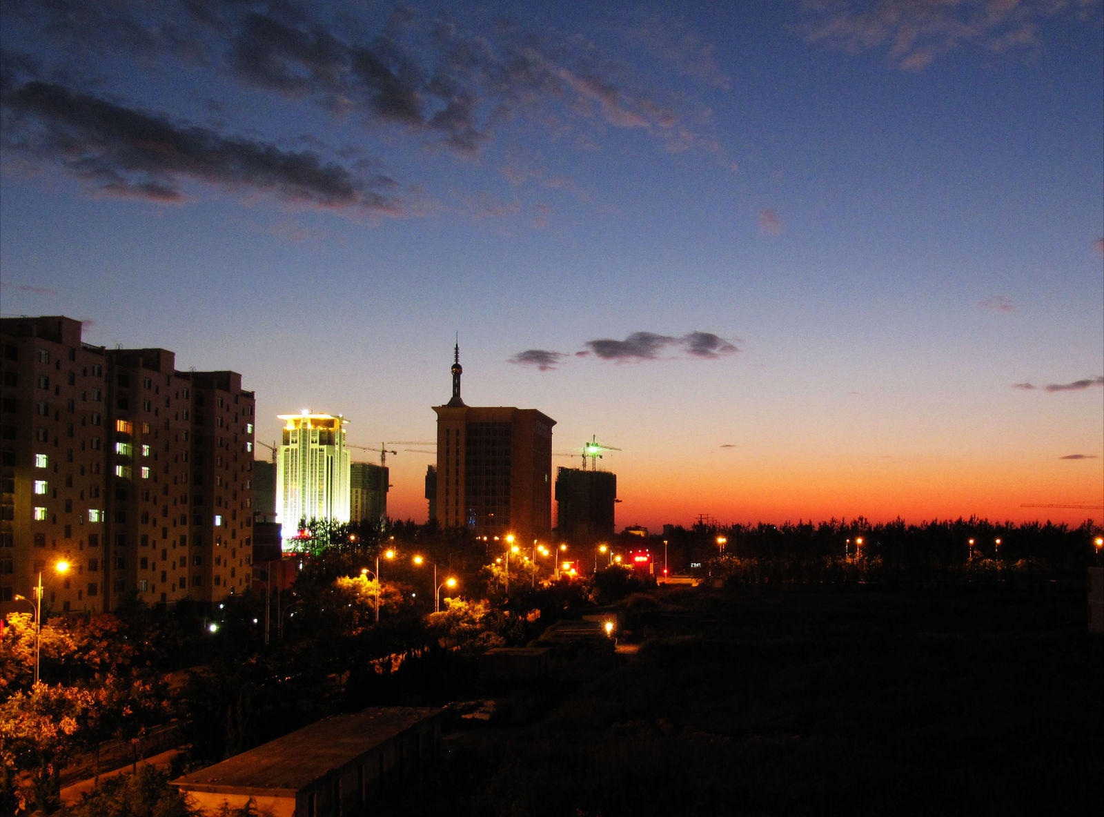 Evening